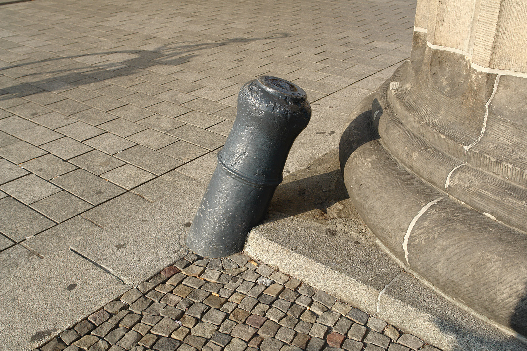 Wheelguard made from an old canon at the Brandenburg Gate in Berlin.